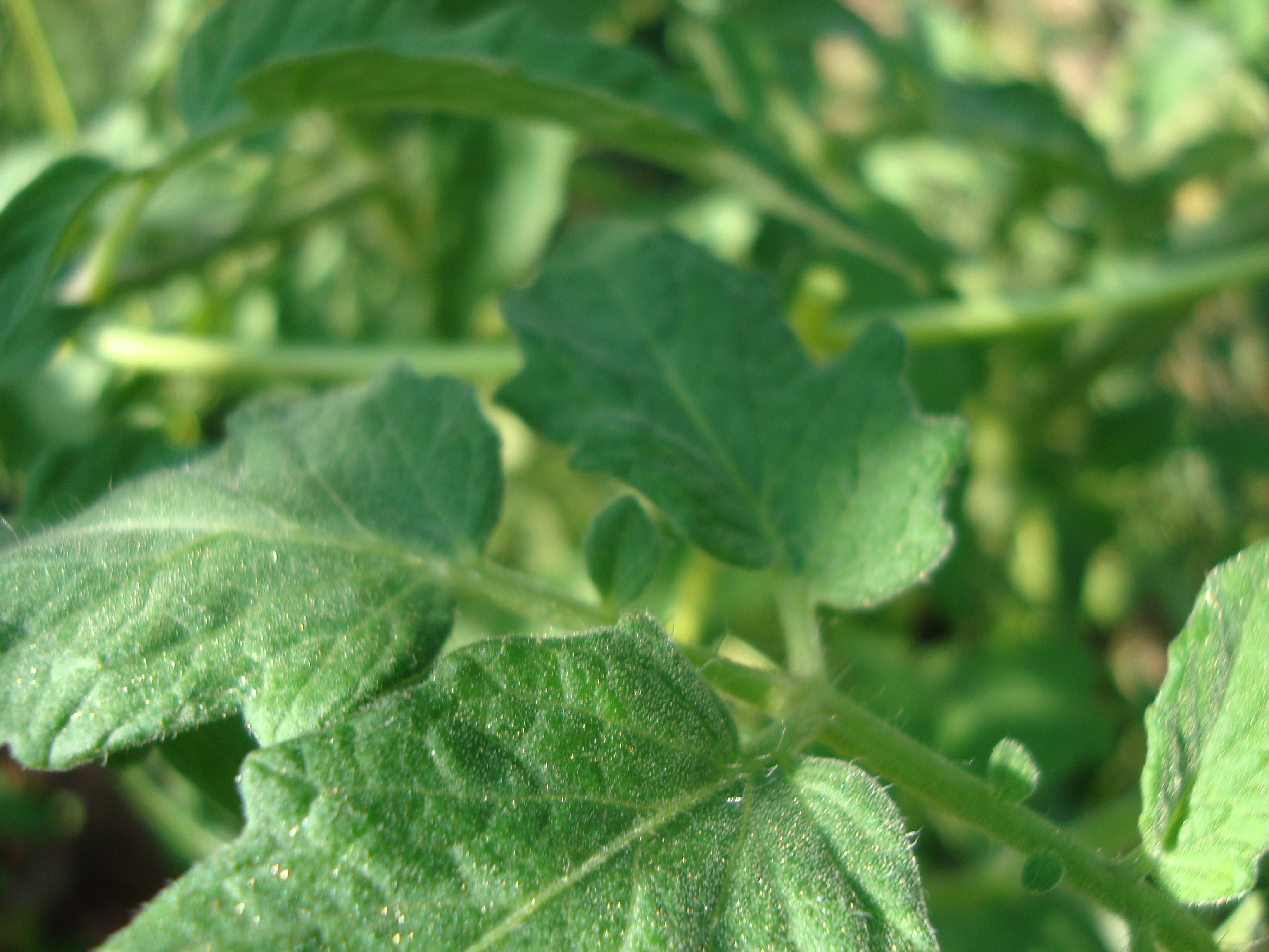 Lycopersicon lycopersicum 'Mr. Stripey'